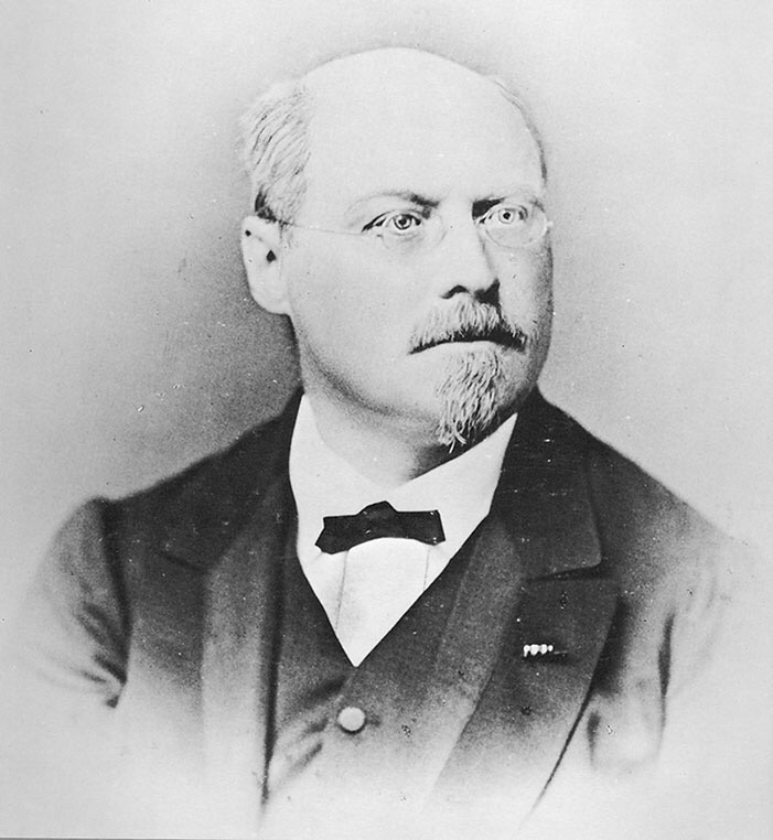 Depicted person: Joachim Raff – Swiss composer